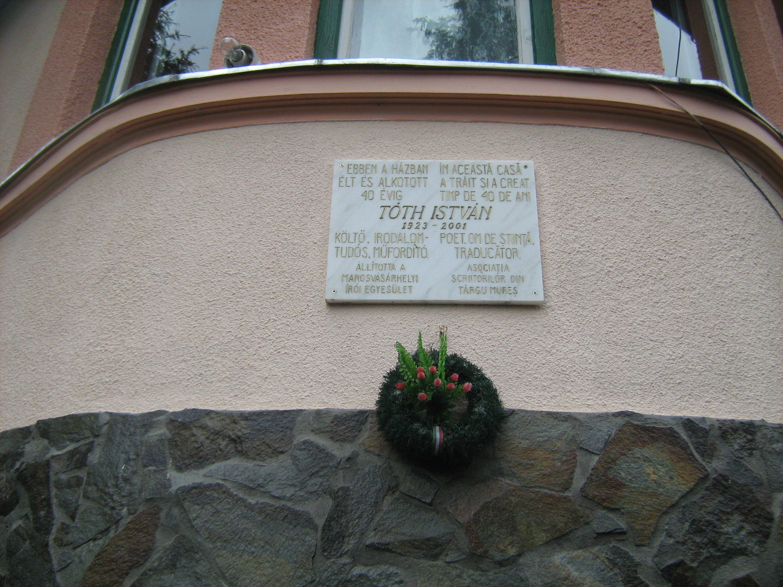 Comamorativa pe fostul locuinta al poetului Tóth István